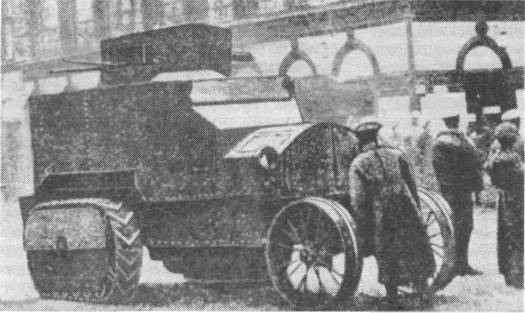 Russian armored tractor „Ahtirets“ on the streets of Moscow.